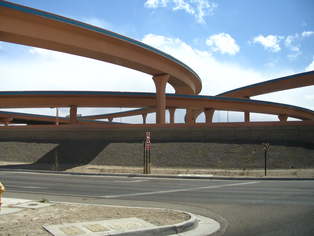 Photo of the Big I from a surface road, aiming southeasterly. Photo taken by myself, User:EMcCutchan